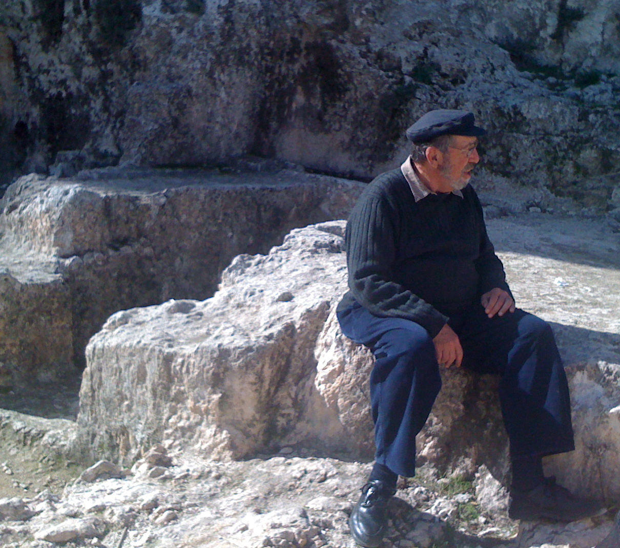 Gabriel Barkay at Ketef Hinnom, sitting on top of the cave where he discovered the silver plaques containing the priestly benediction from the Book of Numbers.